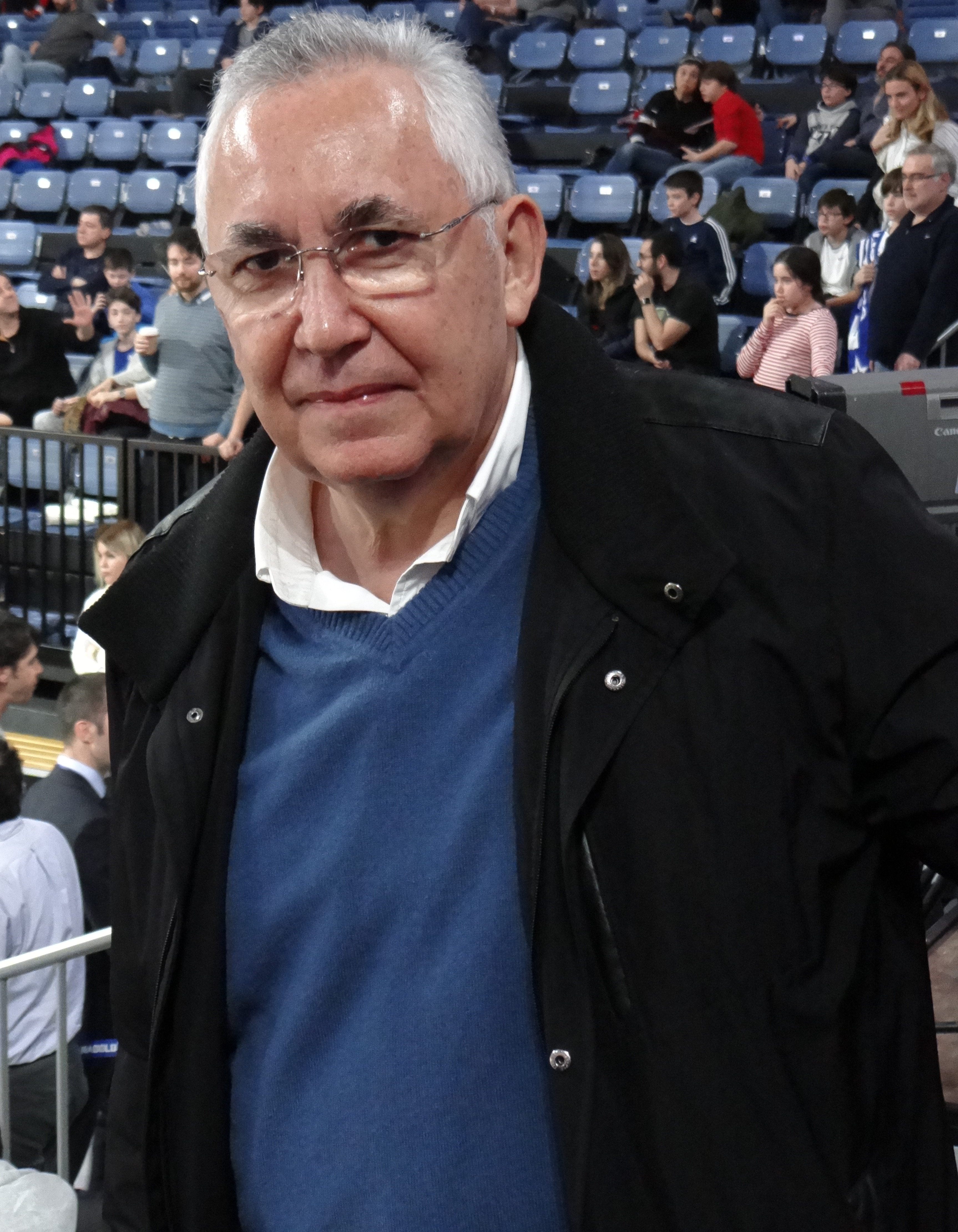 Aydın Örs Anadolu Efes vs Valencia Basket EuroLeague 20180201